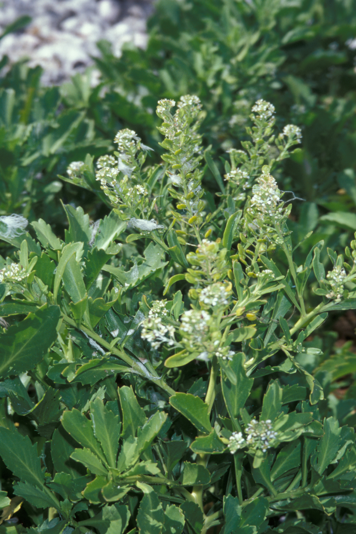 Lepidium bidentatum var. o-waihiense (flowers and seeds). Location: Pearl and Hermes Atoll, Southeast Island